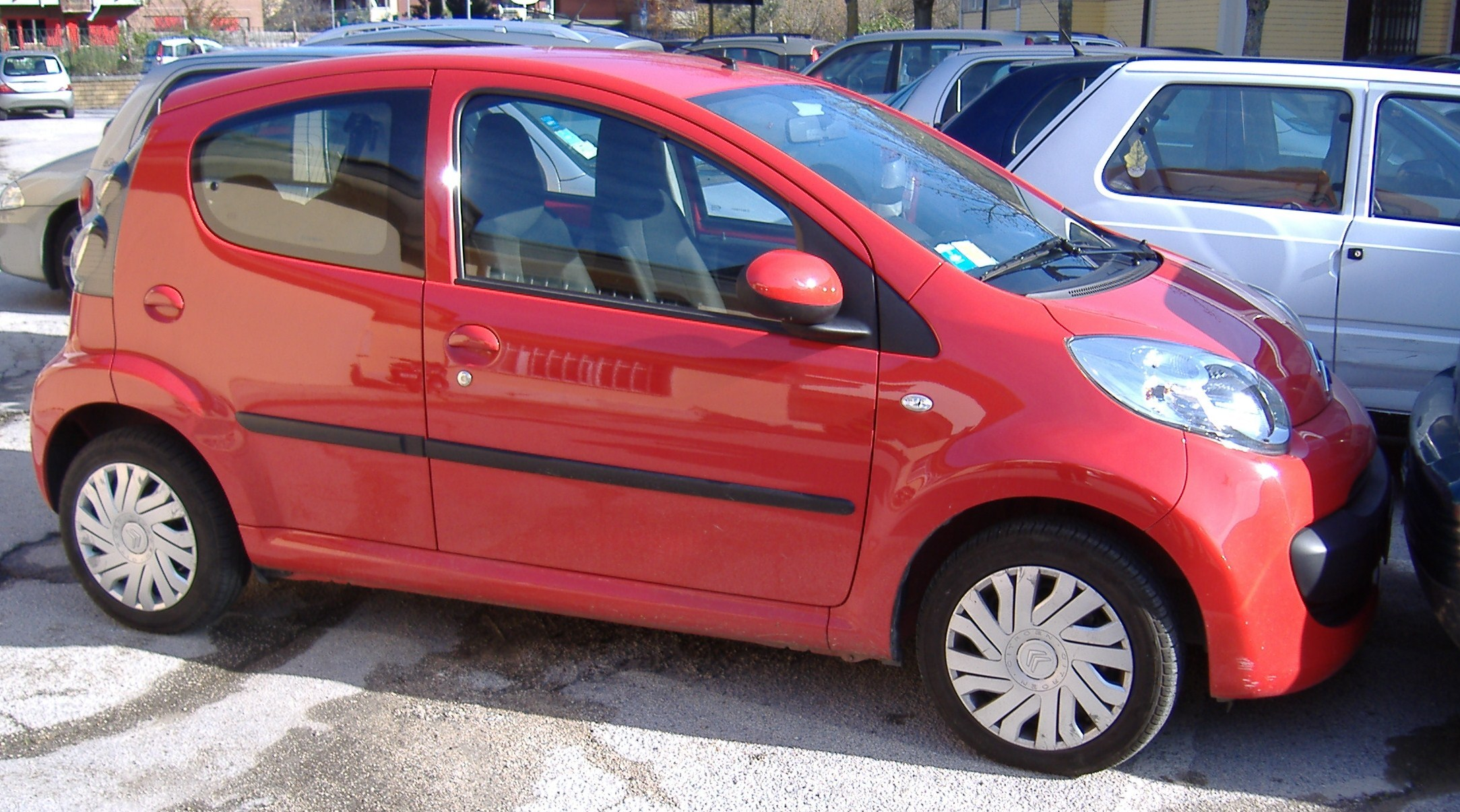 Citroen C1